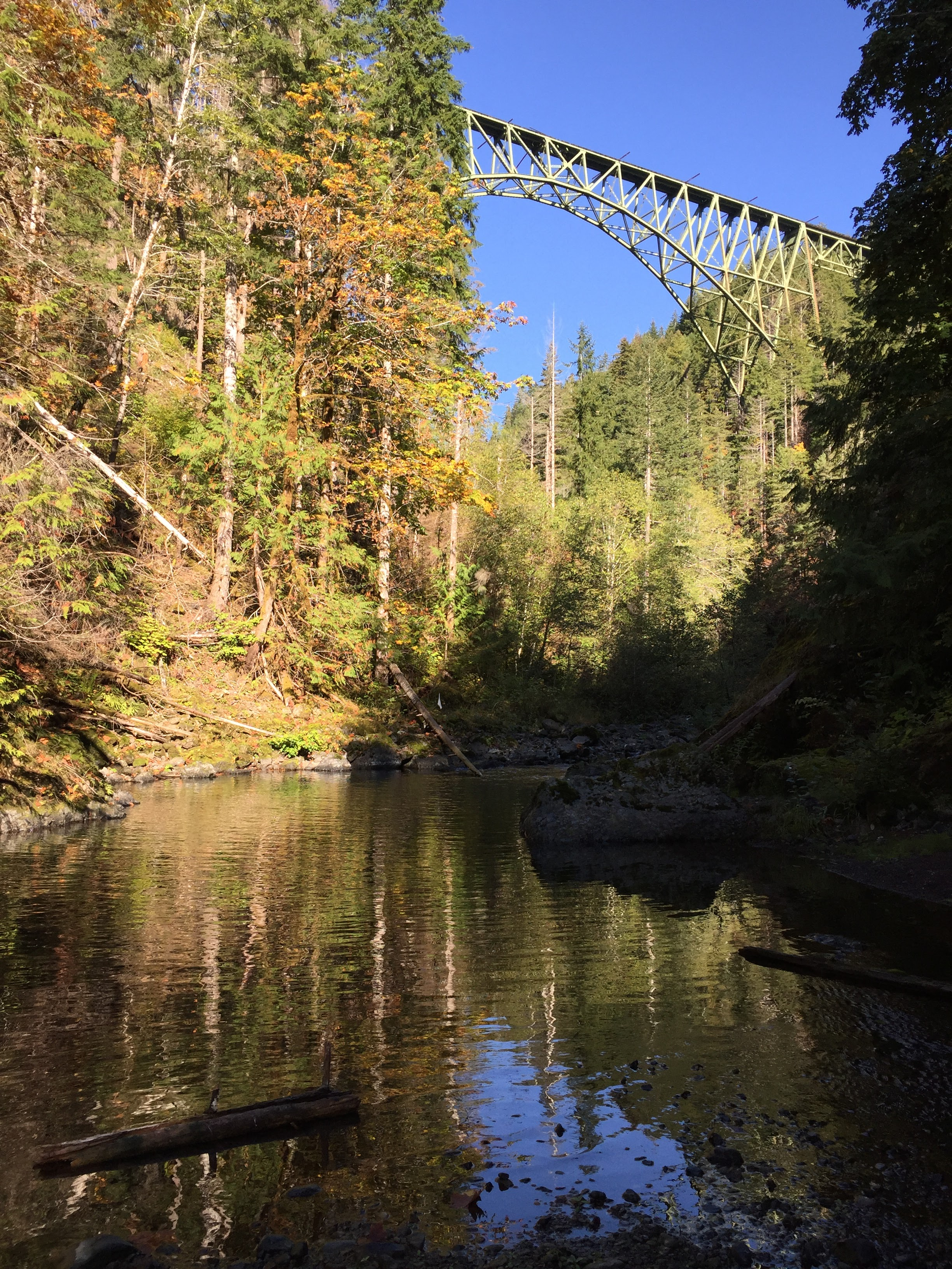 Decommissioned railroad bridge over Vance Creek, WA.